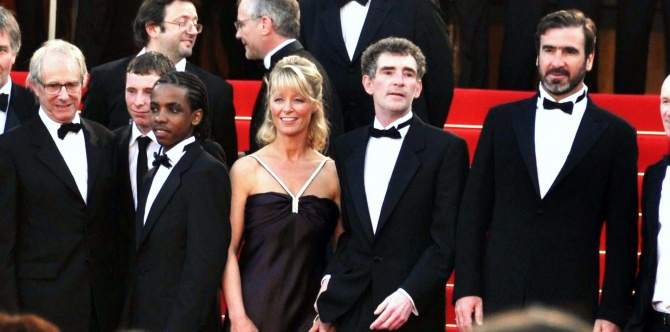 Cast and crew of "Looking for Eric" at the Cannes film festival. From left to right: Ken Loach, Gerard Kearns, Stefan Gumbs, Stephanie Bishop, Steve Evets, Éric Cantona